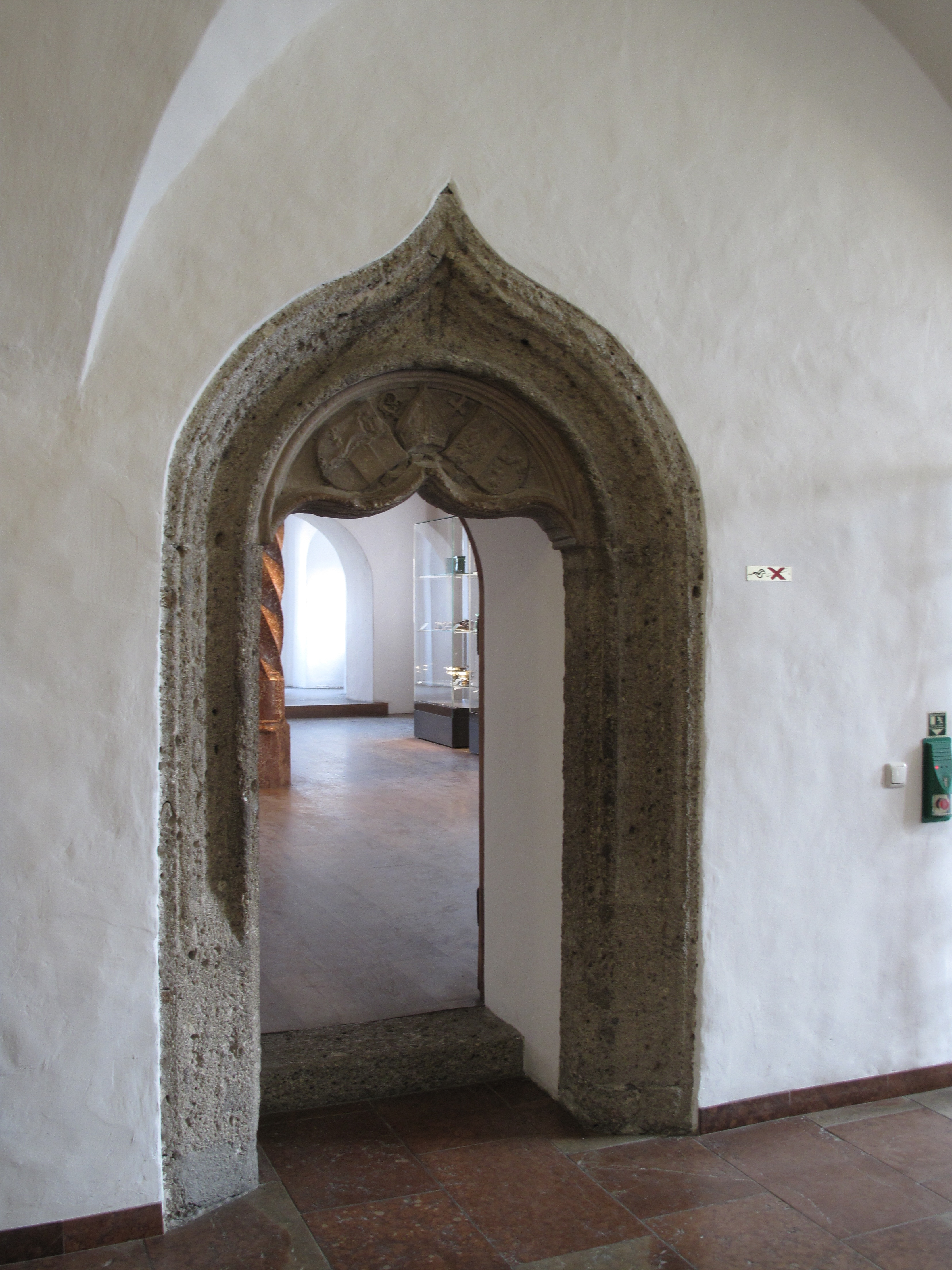 The interior of the Hohensalzburg Castle in Salzburg, Austria.